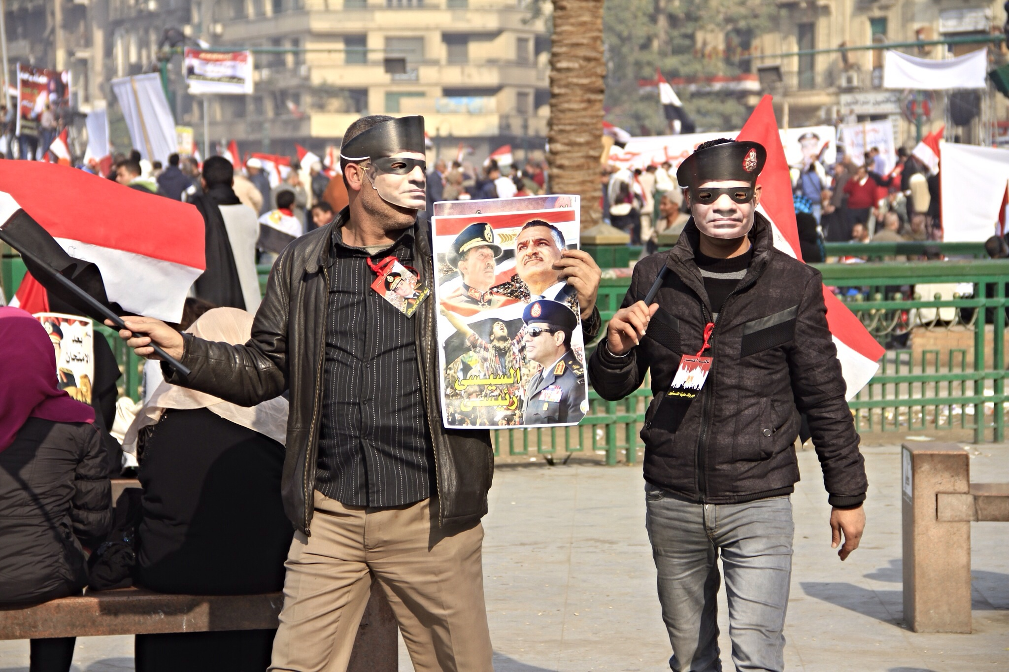 Original description: "Many in the crowd hold pictures of General Abdel Fateh el Sissi, widely expected to run in upcoming presidential elections, (Hamada Elrasam for VOA)."